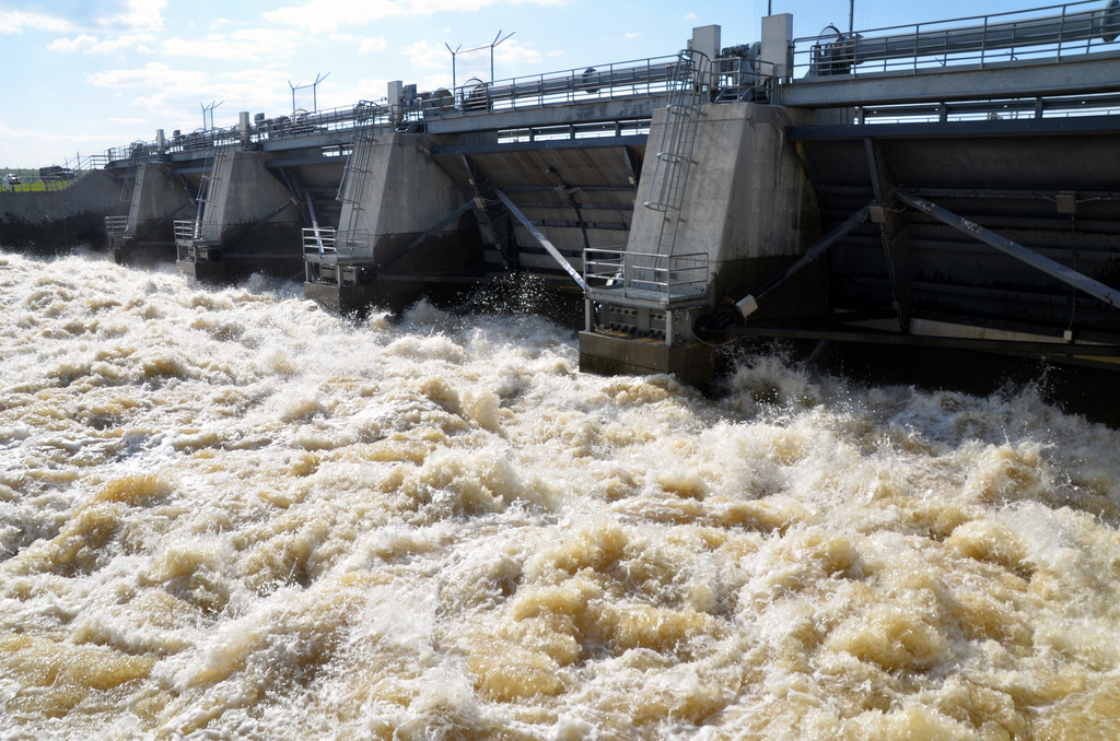 MINOT, N.D. — Lake Darling Dam, northwest of Minot, N.D. releases 22,000 cubic feet per second June 27. The U.S Army Corps of Engineers is currently reducing the daily outflows from the dam by 1,000 to 2,000 per day until the lake reaches its normal summer level of 1597. The lake's current elevation is 1601.(U.S. Army Corps of Engineers photo by Patrick Moes)